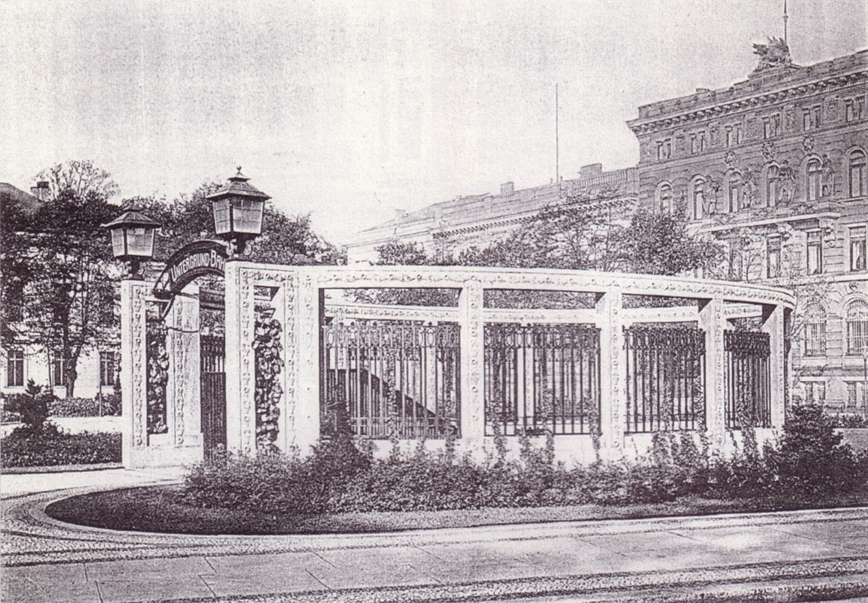 Entrance to the Berlin U-Bahn station Kaiserhof (today Mohrenstraße), line U2